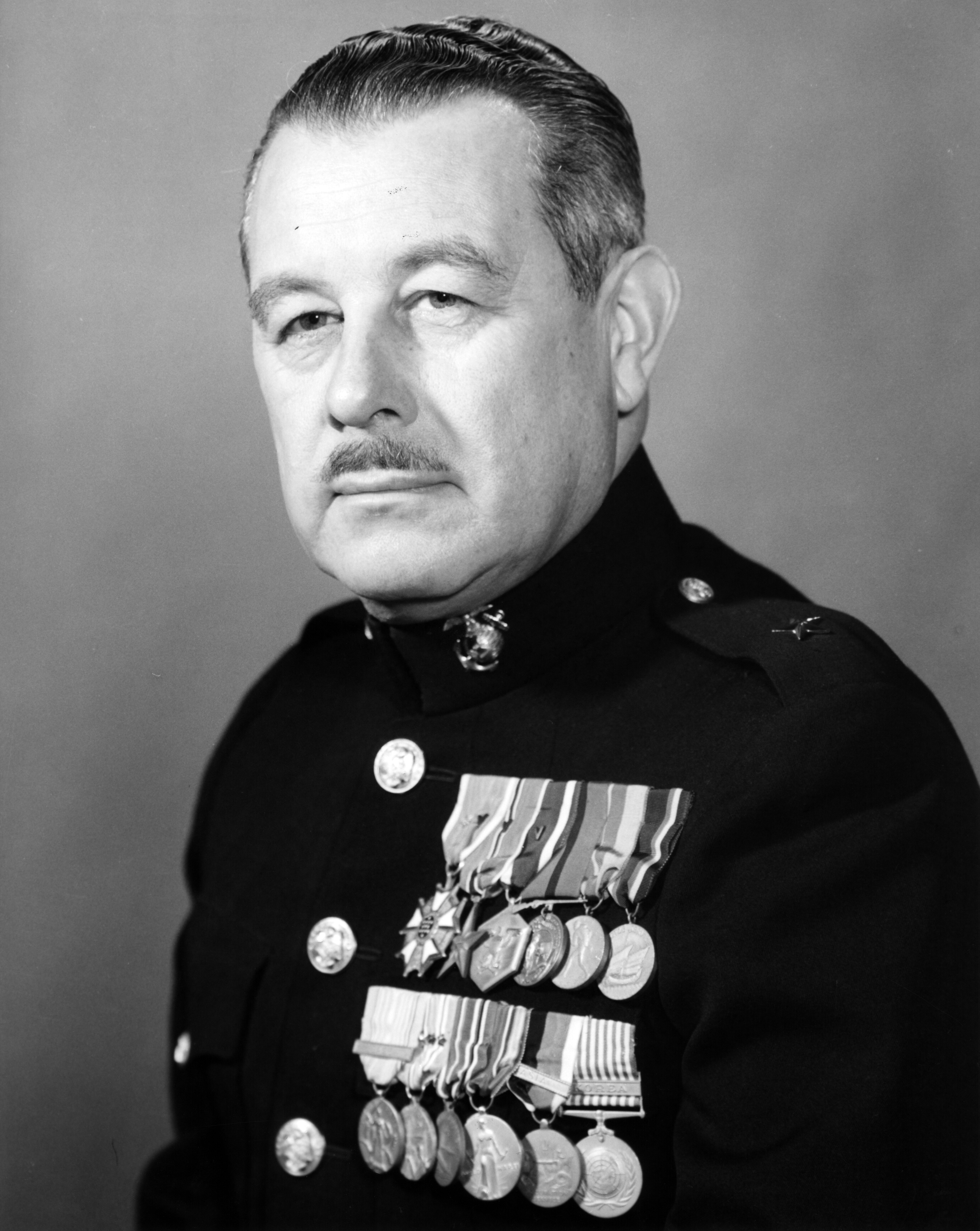 Bankson Taylor Holcomb Jr. (April 14, 1908 – October 5, 2000) was decorated officer of the United States Marine Corps with the rank of Brigadier general. He is most noted for his service as cryptanalyst and Linguist for Admirals Halsey and Spruance during Pacific War or as Intelligence Officer of the 1st Marine Division during Korean War. He was also a cousin of Commandant of the Marine Corps, General Thomas Holcomb.